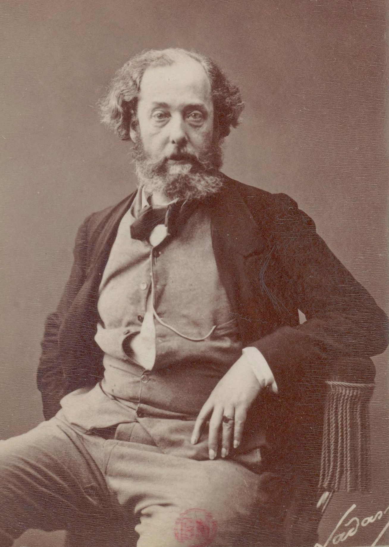 Célestin Nanteuil (1813–1873), French artist